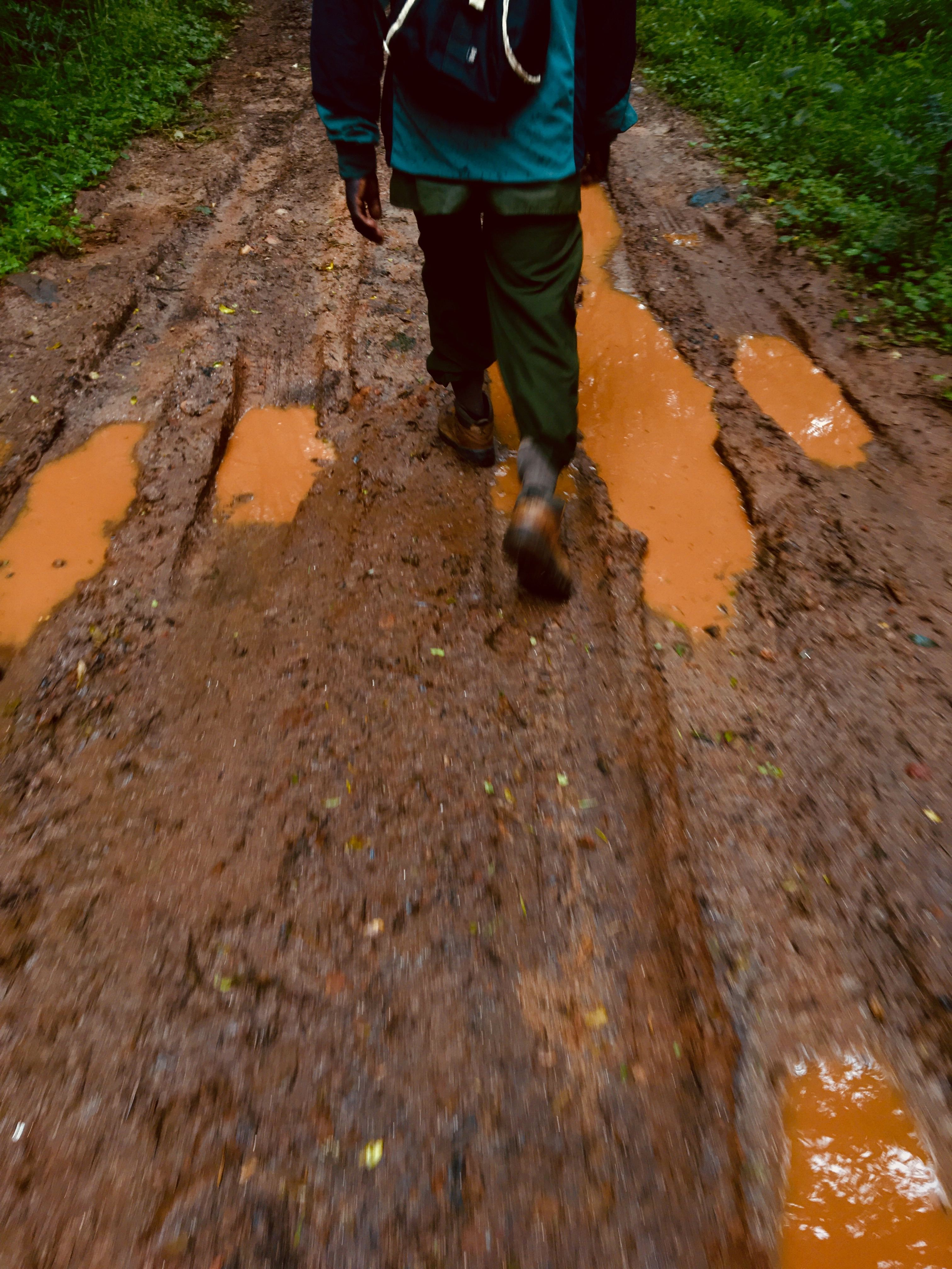 Bonifacio walking in Mount Elgon National Park This is an image with the theme "Africa on the Move or Transport" from: Kenya